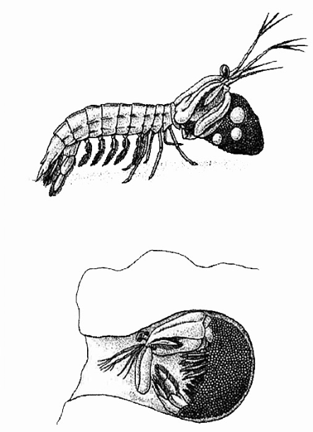 Parental care of mantis shrimp, with its eggs in a hole, illustrated in Photoshop CC.